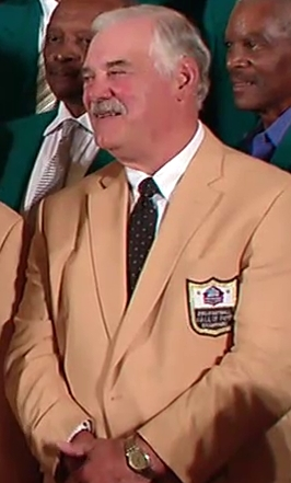 Larry Csonka at the White House, 2013